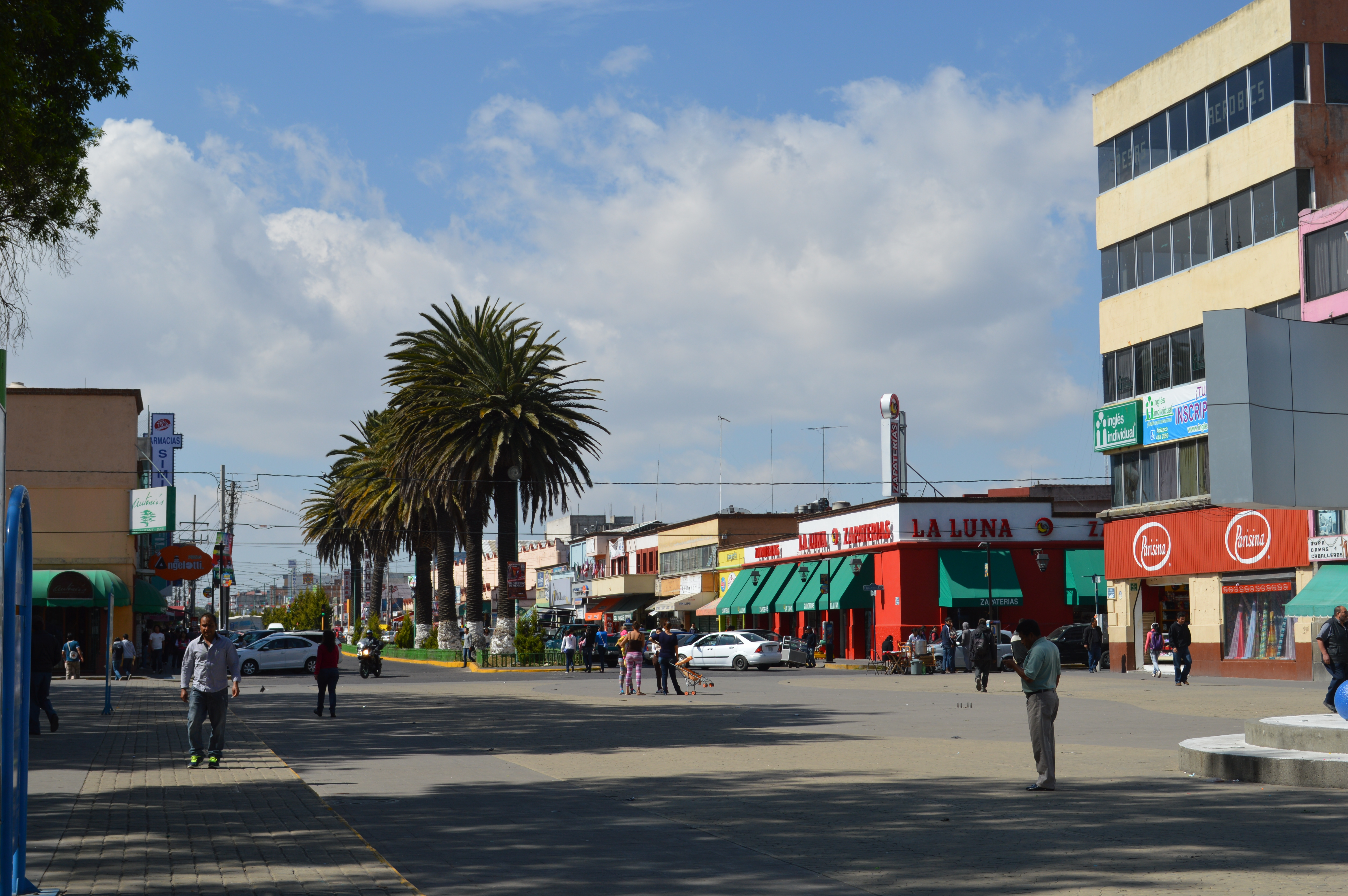 View of Avendia Cuauhtemoc looking north from the main plaza in Apizaco, Tlaxcala, Mexico